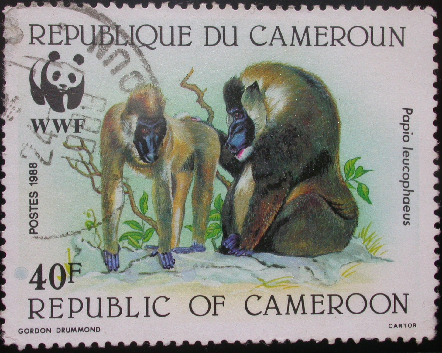 Stamp of the Republic of Cameroon, from a 1988 issue dedicated to the WWF